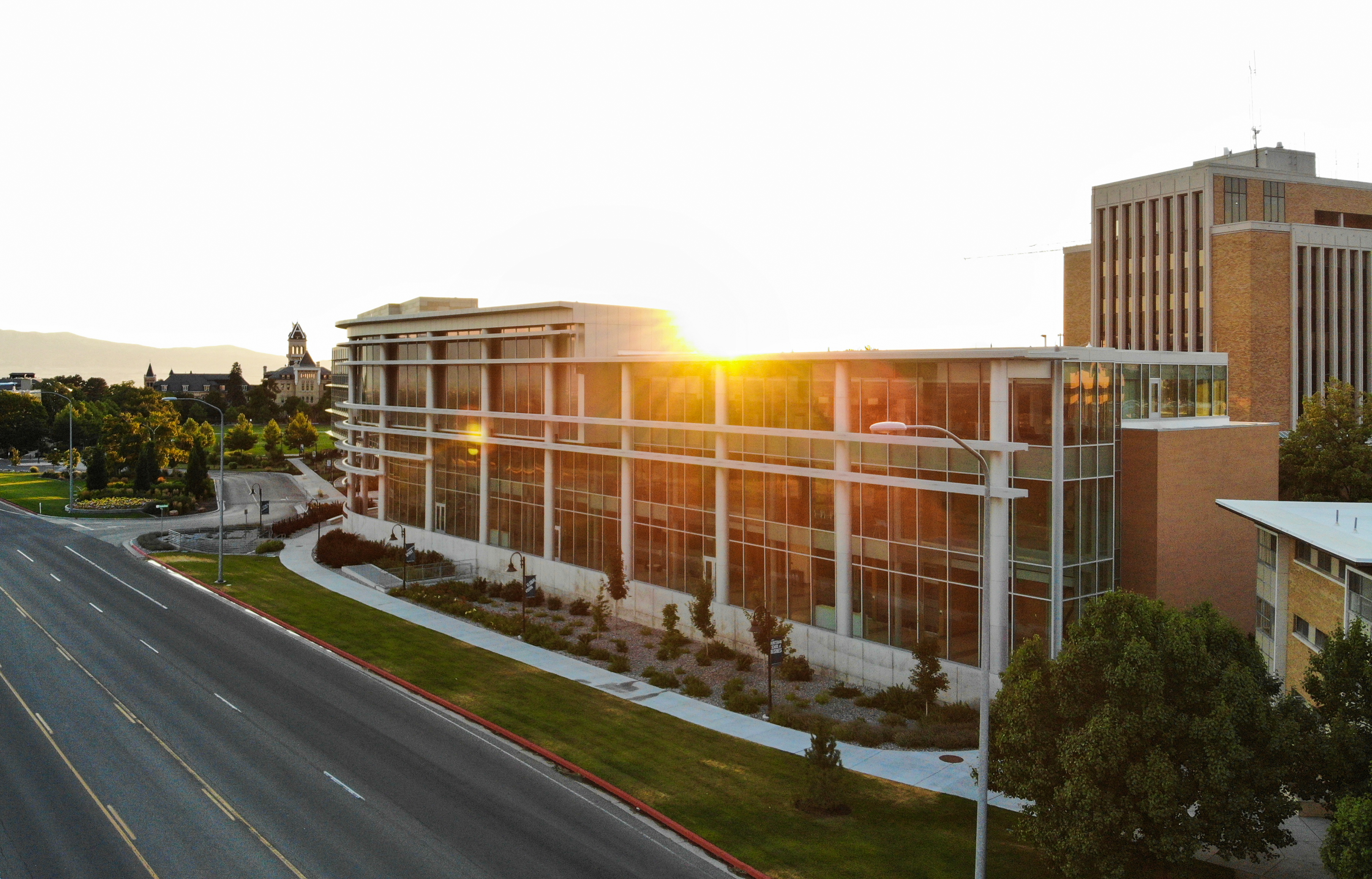 A view of Jon M. Huntsman Hall from the south.